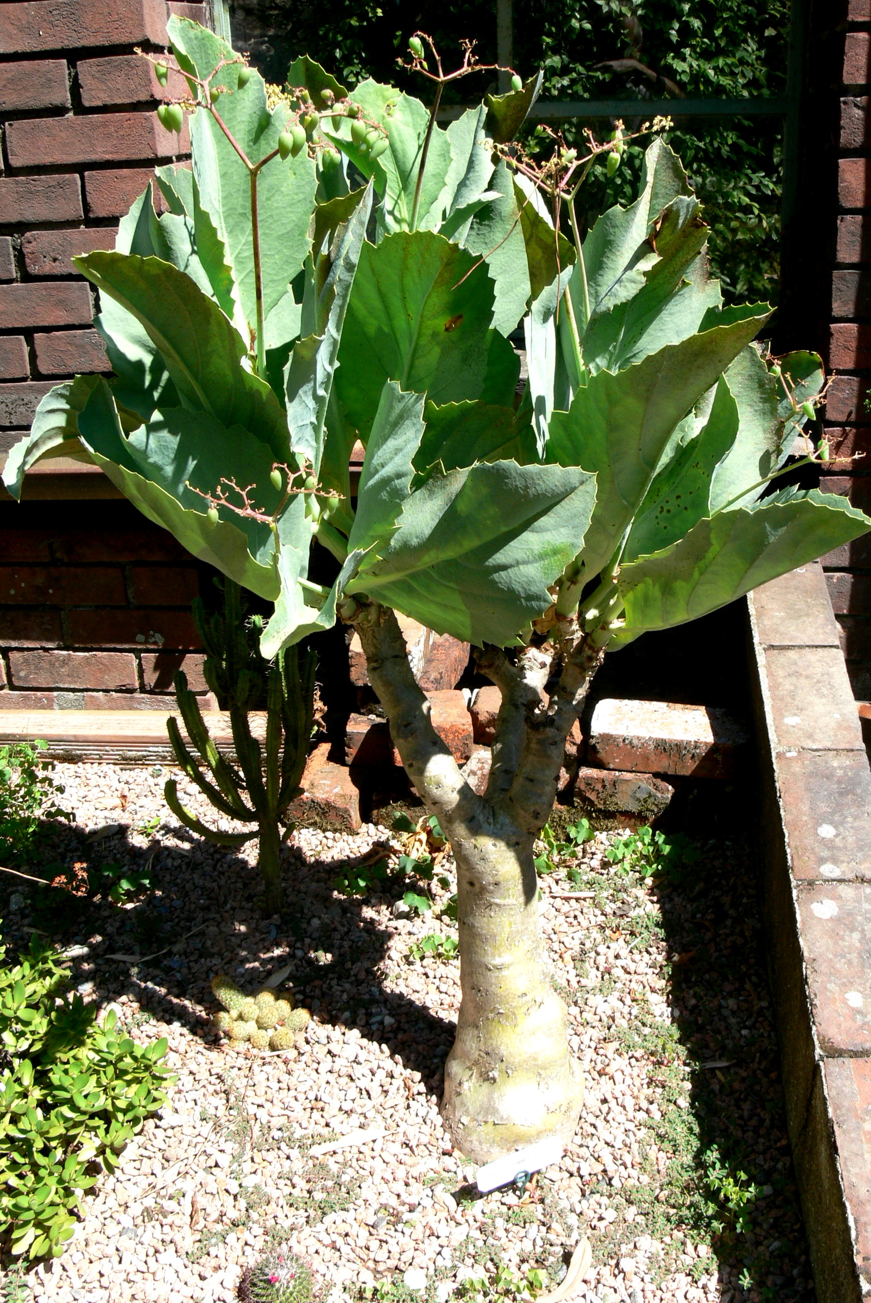 Villa Taranto ( Verbania-Pallanza ). Cyphostemma juttae.